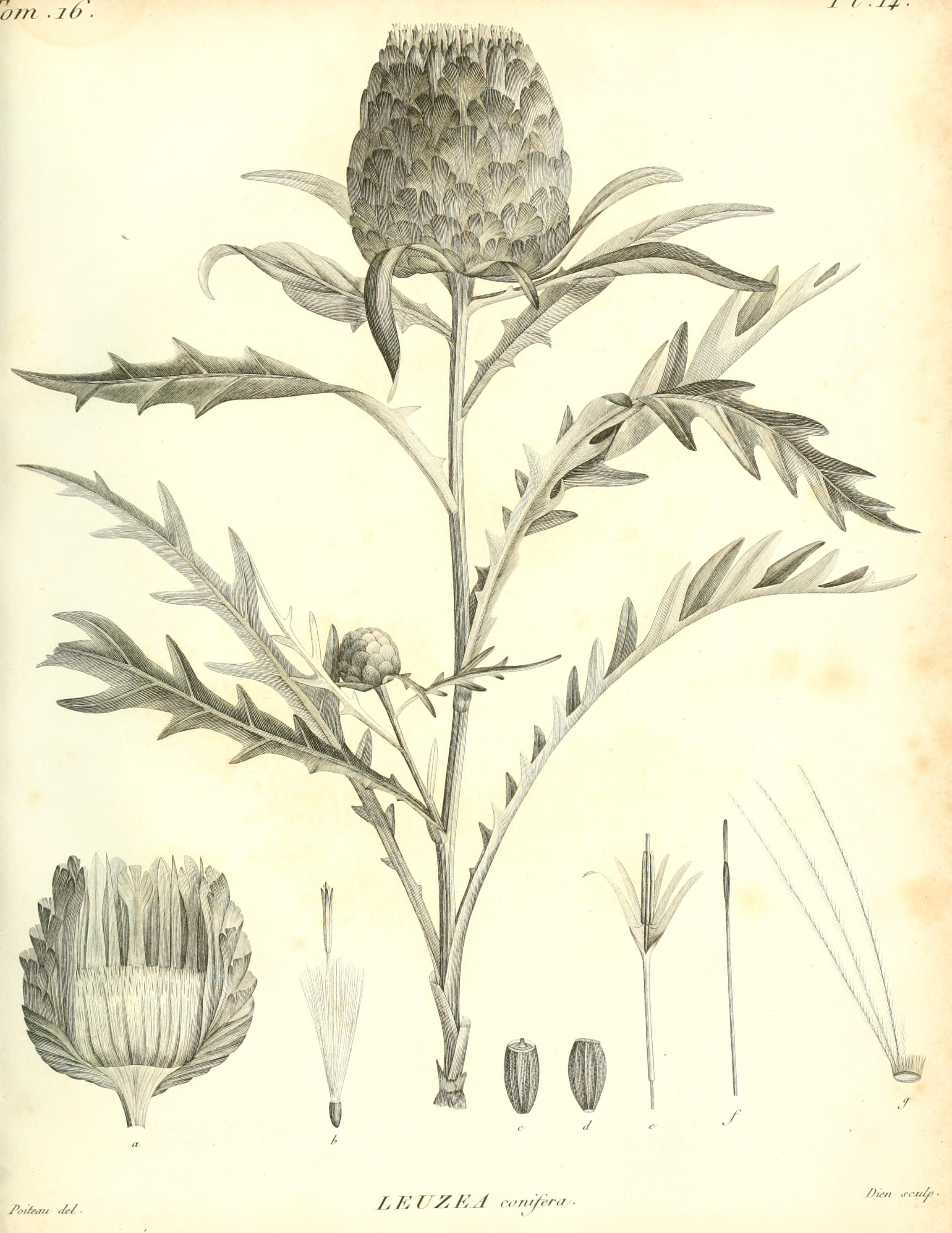 Title: Annales du Muséum d'histoire naturelle Year: 1802 (1800s) Authors: Muséum national d'histoire naturelle (France) Subjects: Natural history; Natural history; Plants Publisher: Paris, G. Dufour, et Ed. d'Ocagne Text Appearing Before Image: Offl .JÙ- J ( . J ^ Text Appearing After Image: Poireau del. LEUZEA conifera Dien sculp.